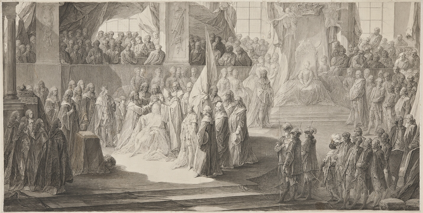 The Coronation of Gustav III in 1772, by Carl Gustav Pilo.